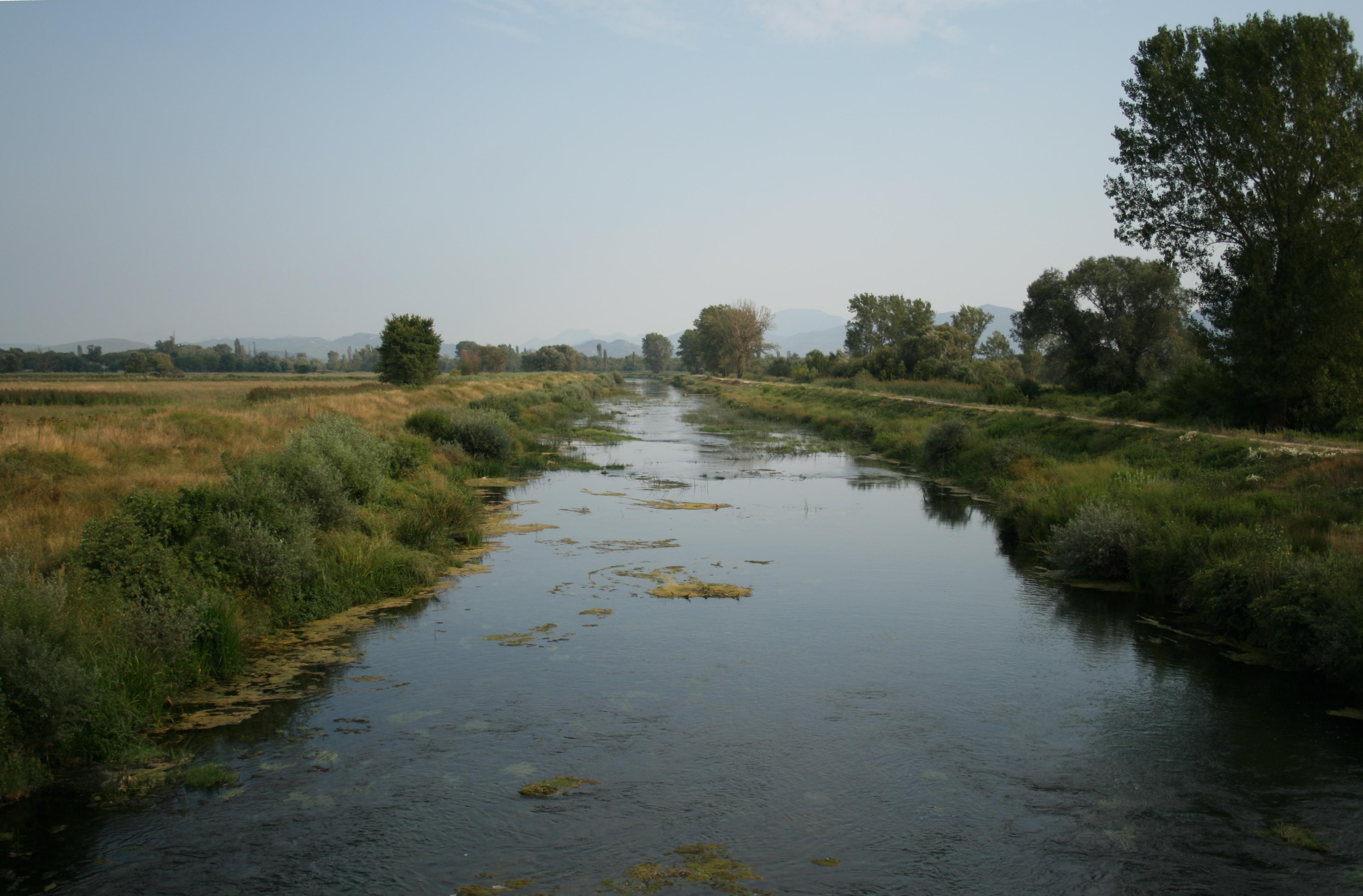 River Trebižat in Ljubuški